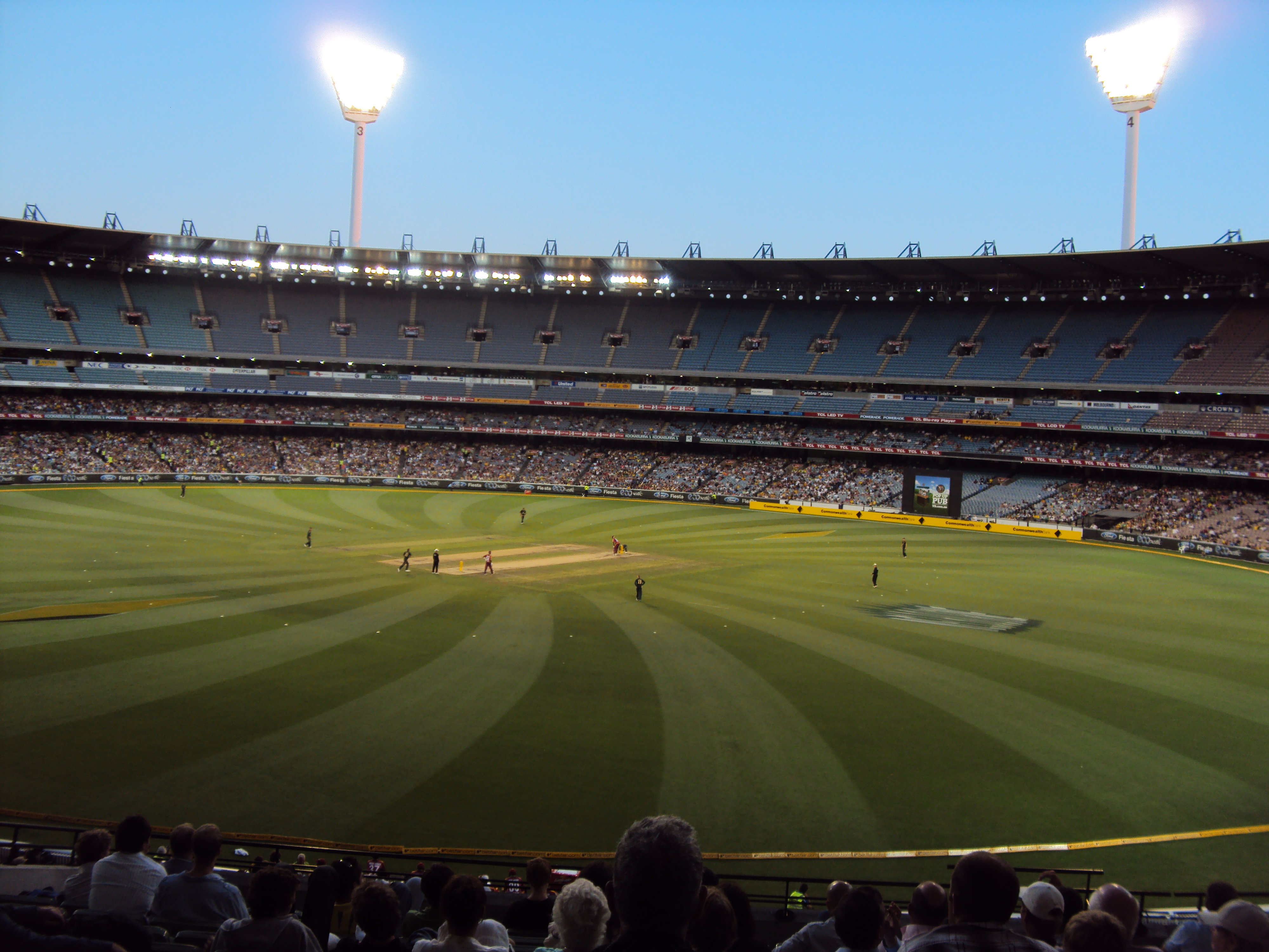 An One Day International match at the Melbourne Cricket Ground, being played under floodlights.